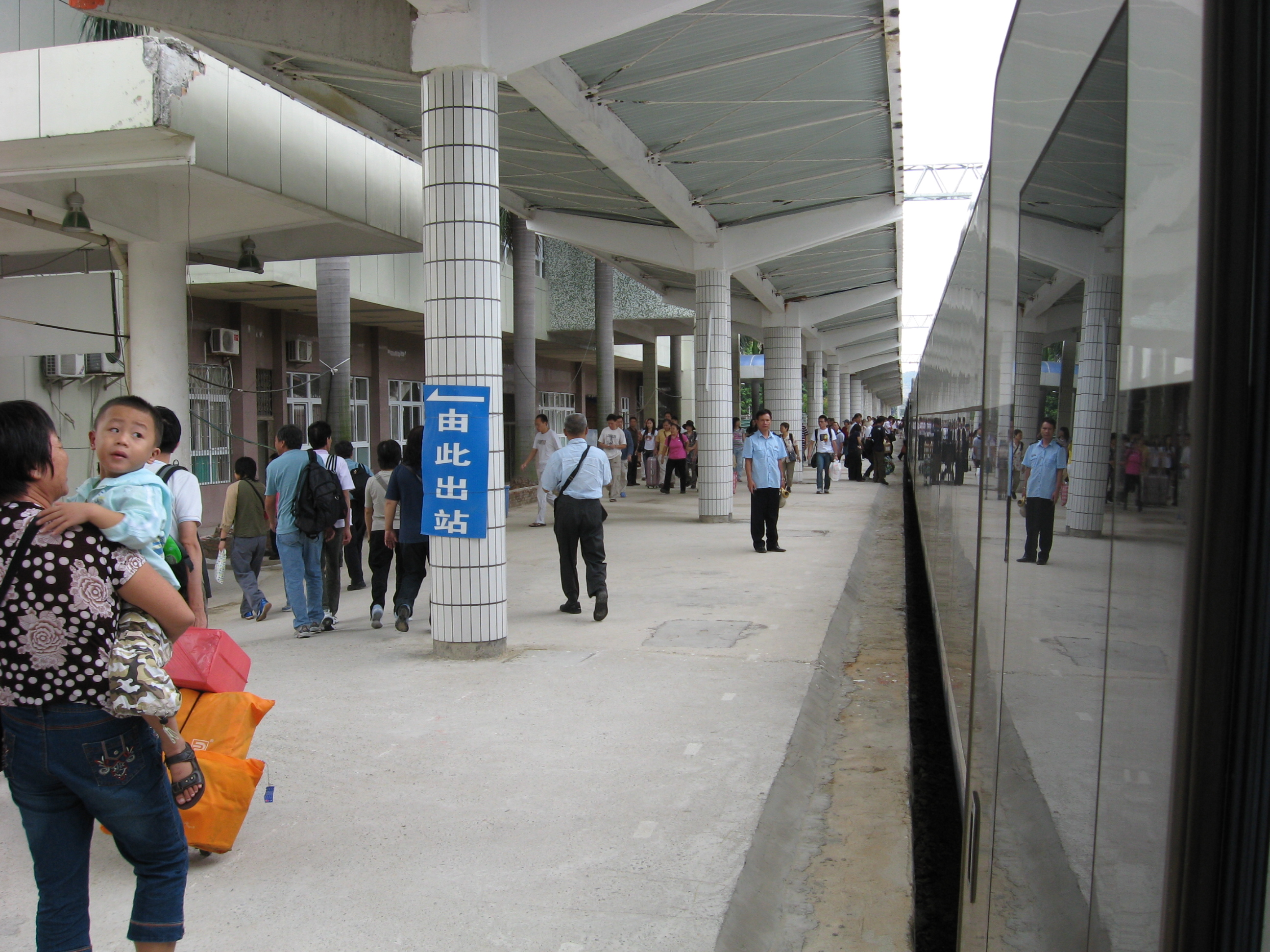 Platform of Zhangmutou Railway Station